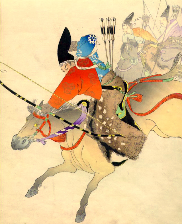 The Mounted Archery Chasing Dogs "Inu ou mono". From "Chiyoda no Ohyoh". Meiji era.